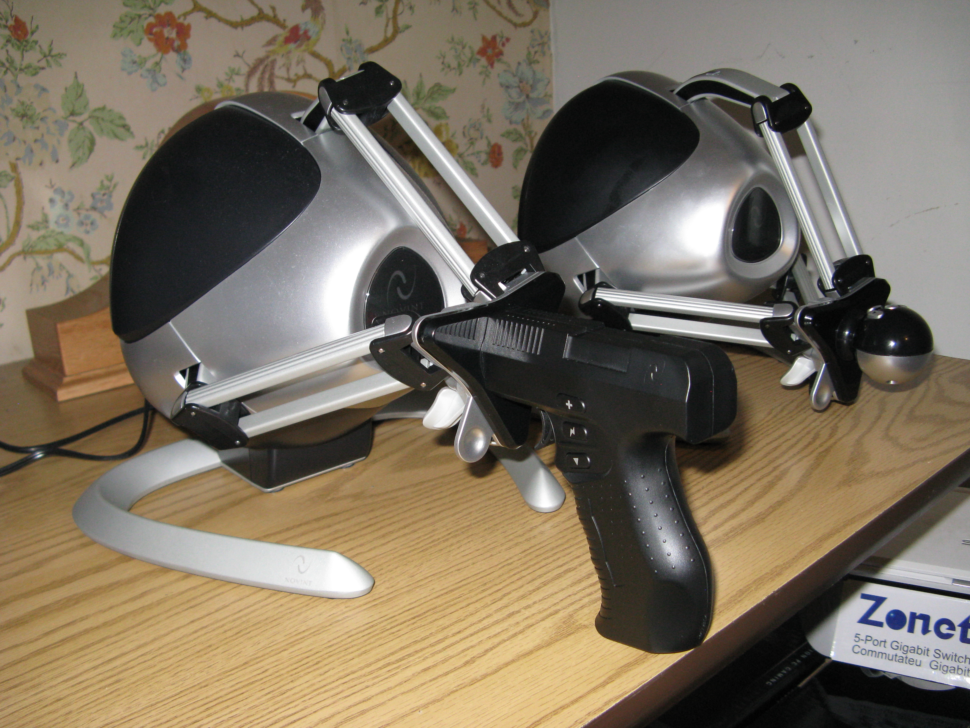 A Pair of black Novint Falcons sitting on a table, with the Pistol and Ball grip attachments.